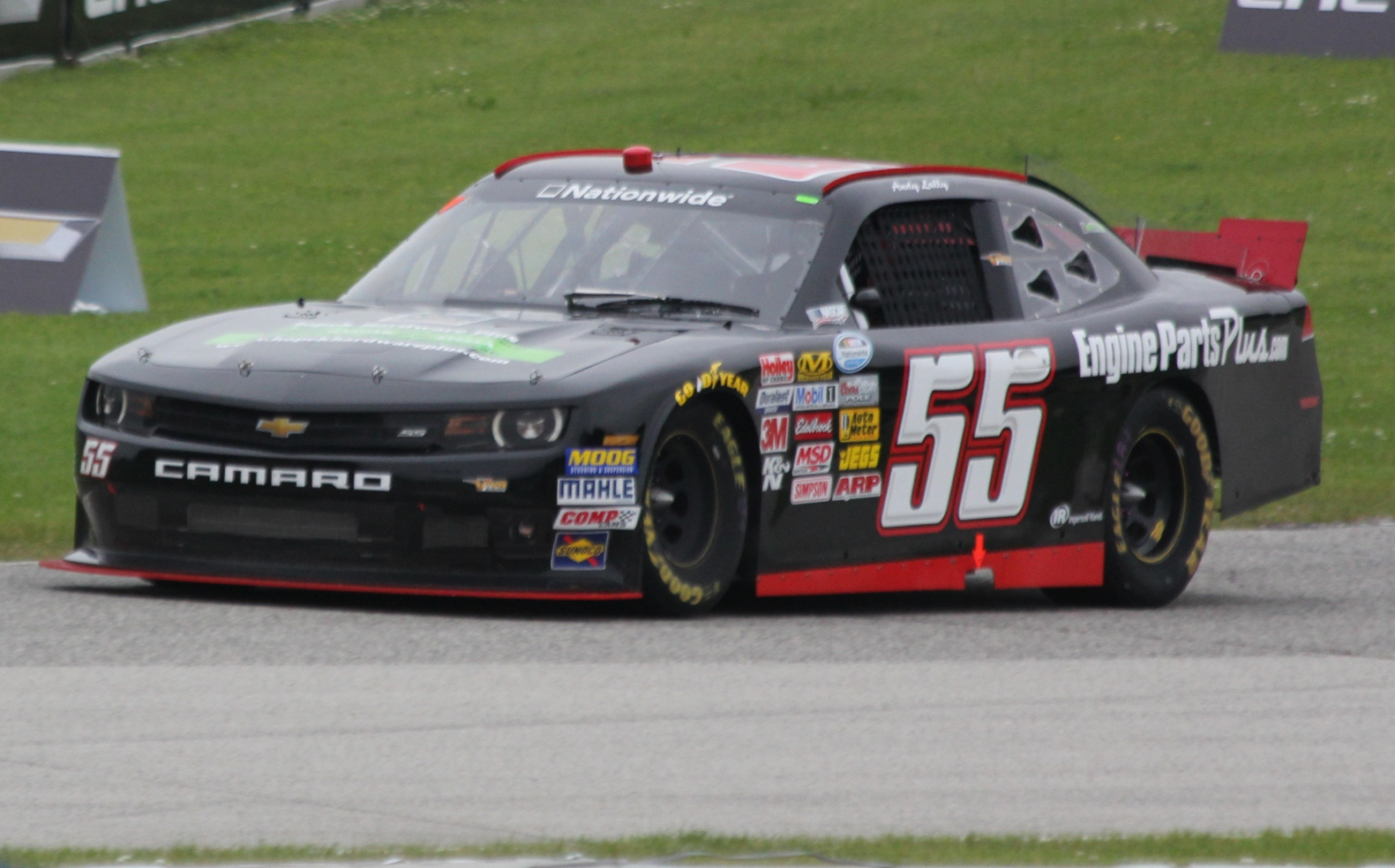 The driver's side of Andy Lally Nationwide car in the rain during the 2014 Gardner Denver 200 at Road America. Taken between turns 5 and 6.